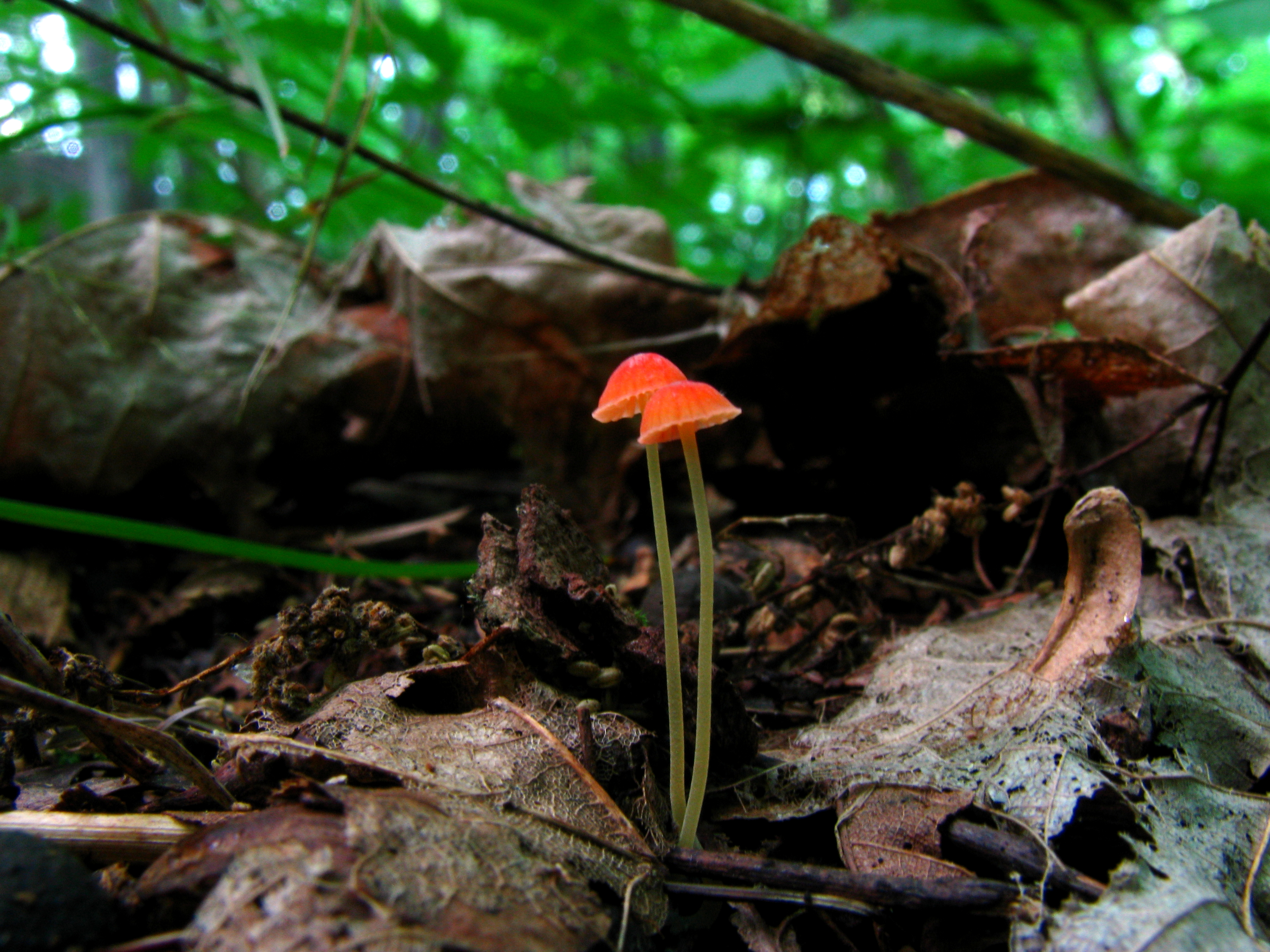 The mushroom Mycena acicula (Schaeff.) P. Kumm. Photographed in Strouds Run State Park, Athens, Ohio, USA.